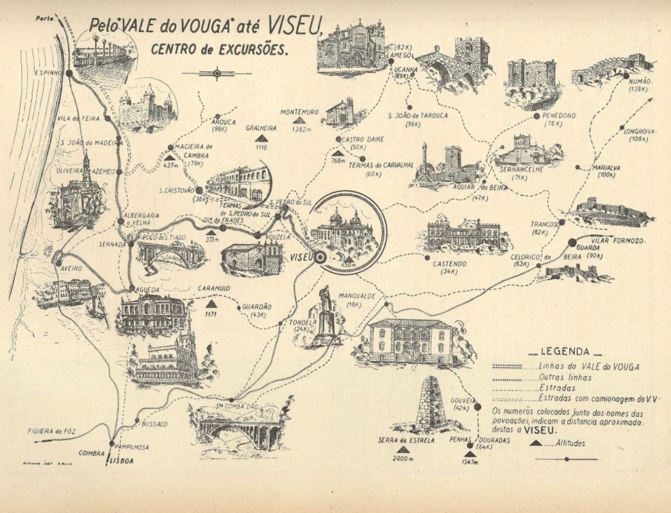 Map of the Vouga railway network, in Portugal, in 1944. In the map are drawn the Vouga Line and its branches to Aveiro and the Cojo Channel, the Dão Line, and parts of the Norte, Beira Baixa and Beira Alta lines. This image was published on the Gazeta dos Caminhos de Ferro magazine no. 1363, of the 1st October 1944, and scanned by the Hemeroteca Municipal de Lisboa.